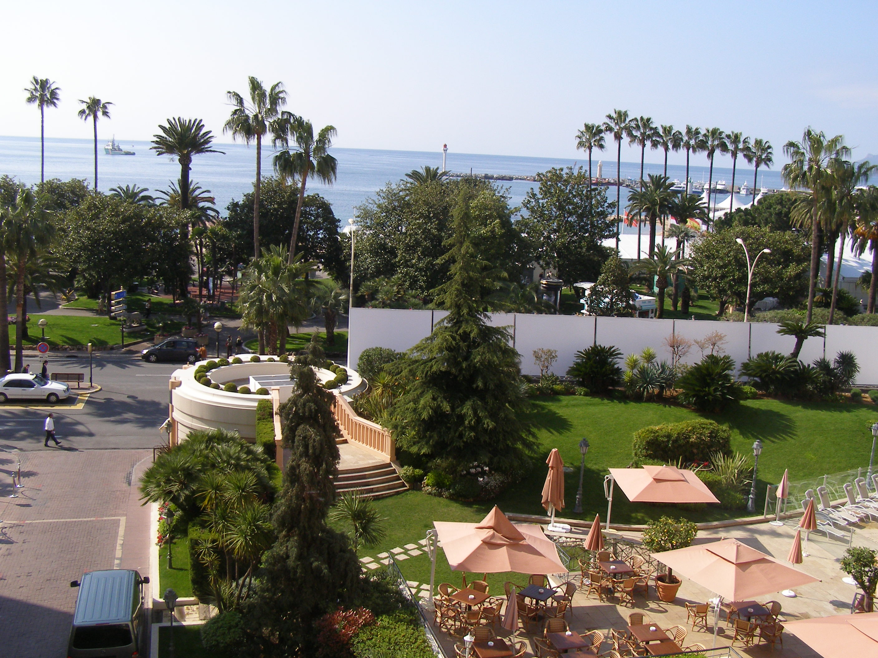 A shot from The Majestic Hotel from my room at the 4th level In Cannes During MIPTV2006.